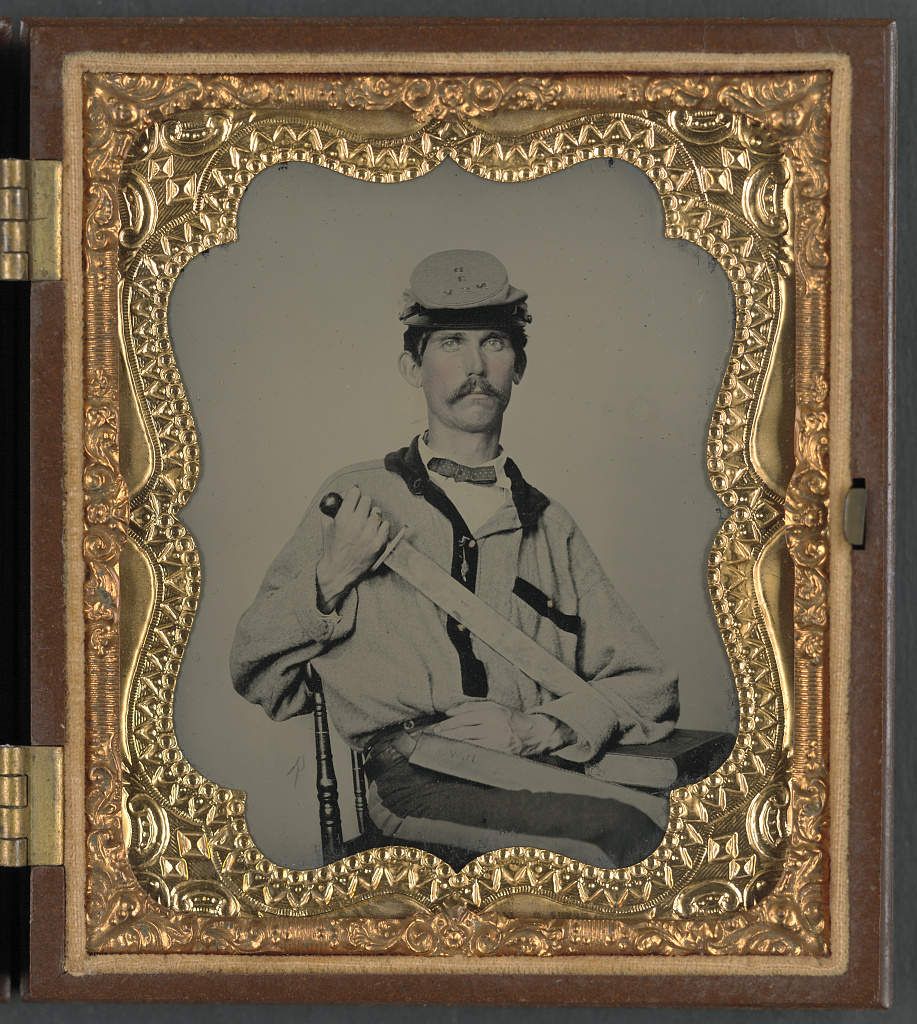 Rees, Charles R.,, photographer. [Unidentified soldier in Confederate uniform and Co. D, 3rd North Carolina Volunteers Regiment hat with Bowie knife and sheath with initials J.L.W.] [United States] ; [1861] 1 photograph : hand-colored ambrotype ; plate 82 x 66 mm (sixth plate format), case 95 x 84 mm. Notes: Title devised by Library staff. Soldier was possibly affiliated with the 3rd North Carolina Infantry Regiment (State Troops) or the 13th North Carolina Infantry Regiment, which was earlier designated as 3rd North Carolina Volunteers. Formerly identified as Private James Love of Co. D, 13th North Carolina Infantry Regiment. Case: Berg, no. 2-66. Use digital images. Original served only by appointment because material requires special handling. For more information see: ( Deposit; Tom Liljenquist; 2013; (D067) Purchased from: John W. McAden, Wilson, North Carolina, 2013. Forms part of: Liljenquist Family Collection of Civil War Photographs (Library of Congress). Forms part of: Ambrotype/Tintype photograph filing series (Library of Congress). Subjects: Confederate States of America.--Army--People--1860-1870. Soldiers--Confederate--1860-1870. Military uniforms--Confederate--1860-1870. Knives--1860-1870. United States--History--Civil War, 1861-1865--Military personnel--Confederate. Format: Portrait photographs--1860-1870. Ambrotypes--Hand-colored--1860-1870. Repository: Library of Congress, Prints and Photographs Division, Washington, D.C. 20540 USA, Part Of: Ambrotype/Tintype filing series (Library of Congress) (DLC) 2010650518 Liljenquist Family collection (Library of Congress) (DLC) 2010650519 More information about this collection is available at Higher resolution image is available (Persistent URL): Call Number: AMB/TIN no. 3125 (From WIkipedia upload) Daguerreotype, soldier in Confederate uniform with short sword and sheath with initials J.L.W., probably for Private John L. Wood of Co. D, 3rd North Carolina Infantry Regiment